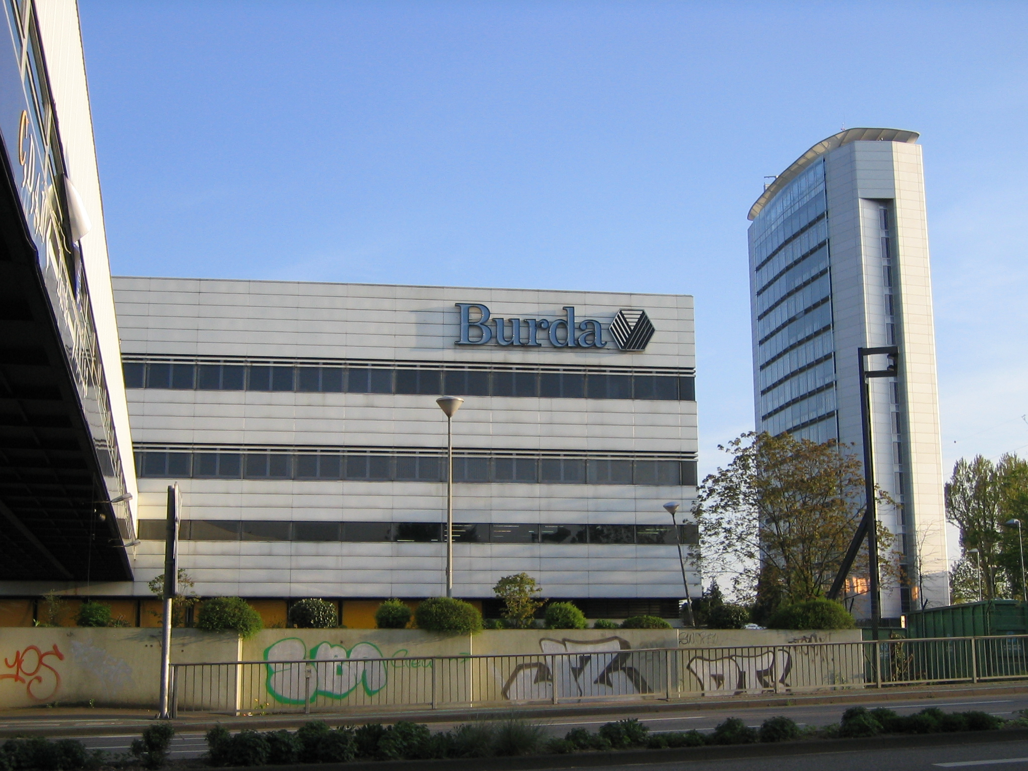 Burda-building in Offenburg, the highest structure in Offenburg, after renovation deprived of its formerly characteristic BURDA-letters that could be seen from afar when illuminated. The image is dominated by the north facade of the printing works. At the left marigin, the bridge linking the old and new Burda-premises can be spotted. The bridge was removed in 2014.